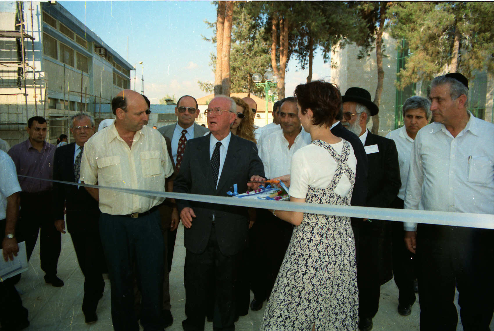 Entertainment